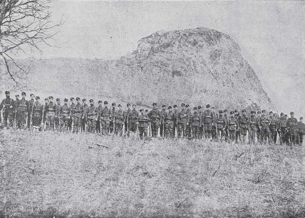 Cheta of SMAK and IMARO member Nikola Lefterov, 1905